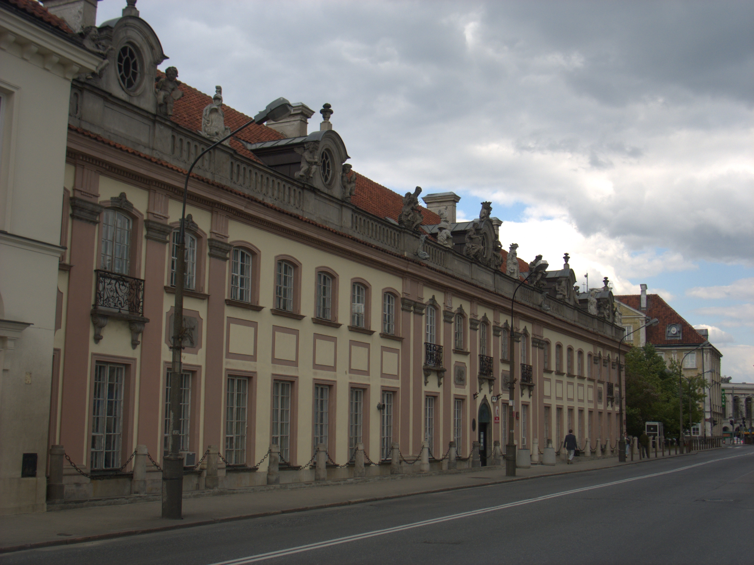 Rococo Branicki Palace houses city government.